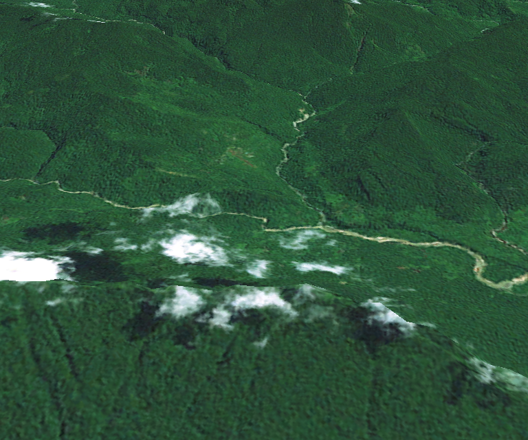 NASA World Wind Landsat or Blue Marble image of Papua New Guinea or Australia